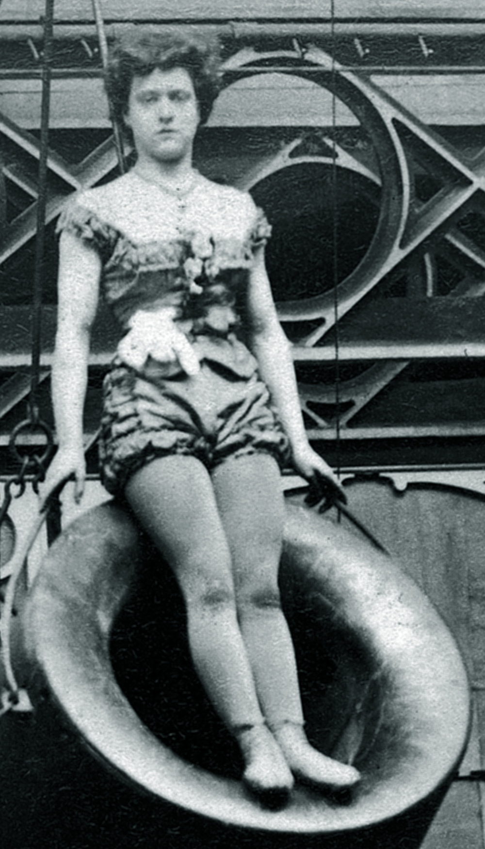 Rossa Matilda Richter, also known as Zazel, the first human cannonball performer